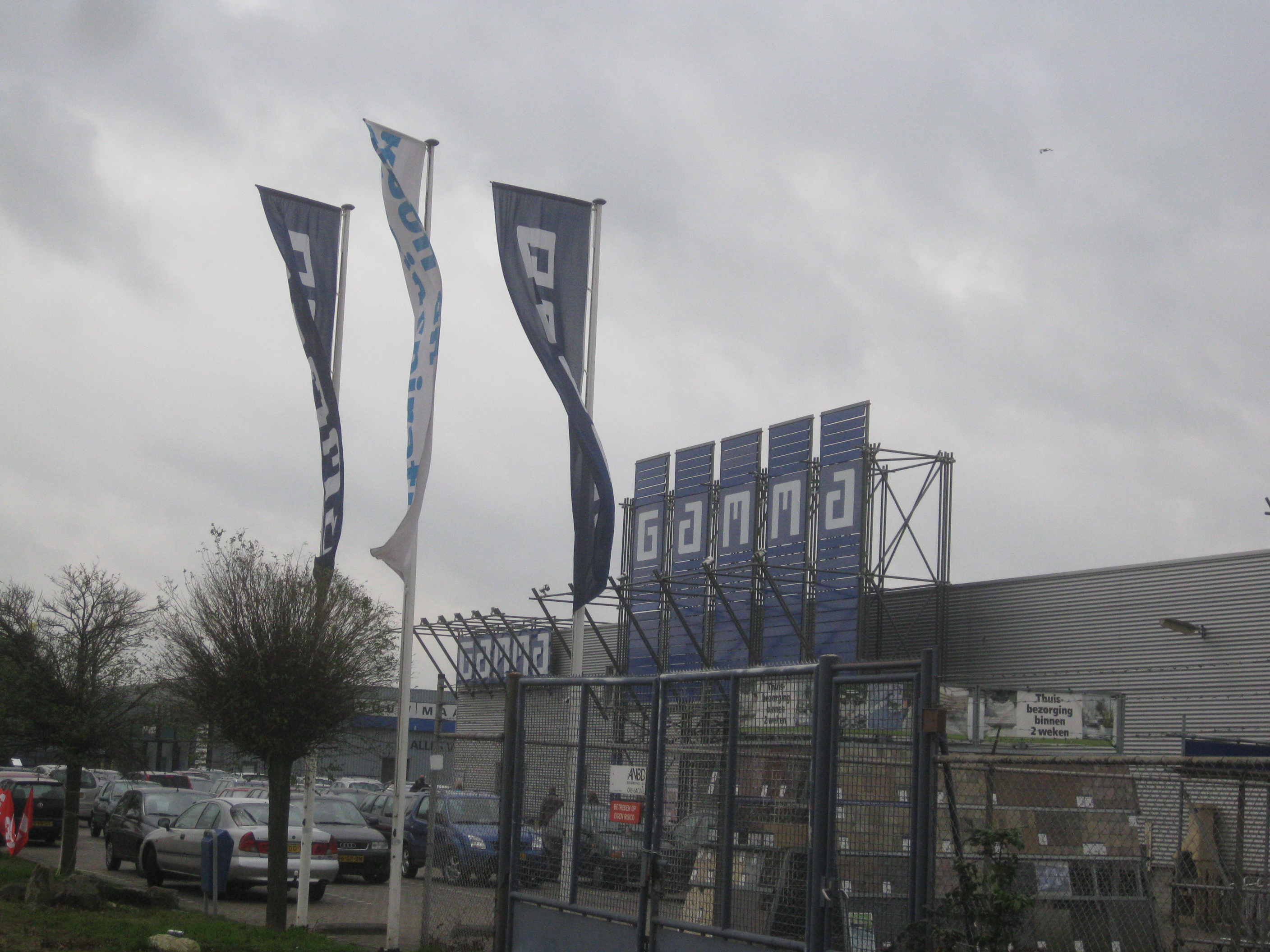 Gamma hardware store located on Energieweg in Nijmegen, The Netherlands